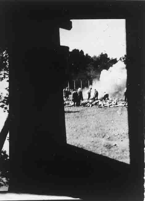 Cremation of gassed bodies in the open-air incineration pits in front of the gas chamber of crematorium V of Auschwitz, August 1944. (Auschwitz-Birkenau State Museum) Sonderkommando photographs.